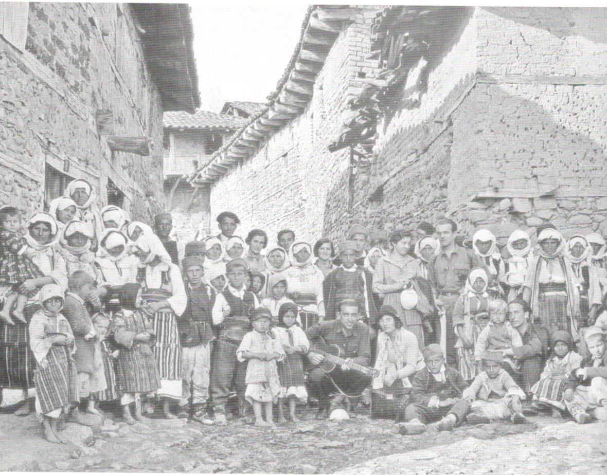 Farewell of the mineralogical expedition in the village of Kuchevishte, Macedonia